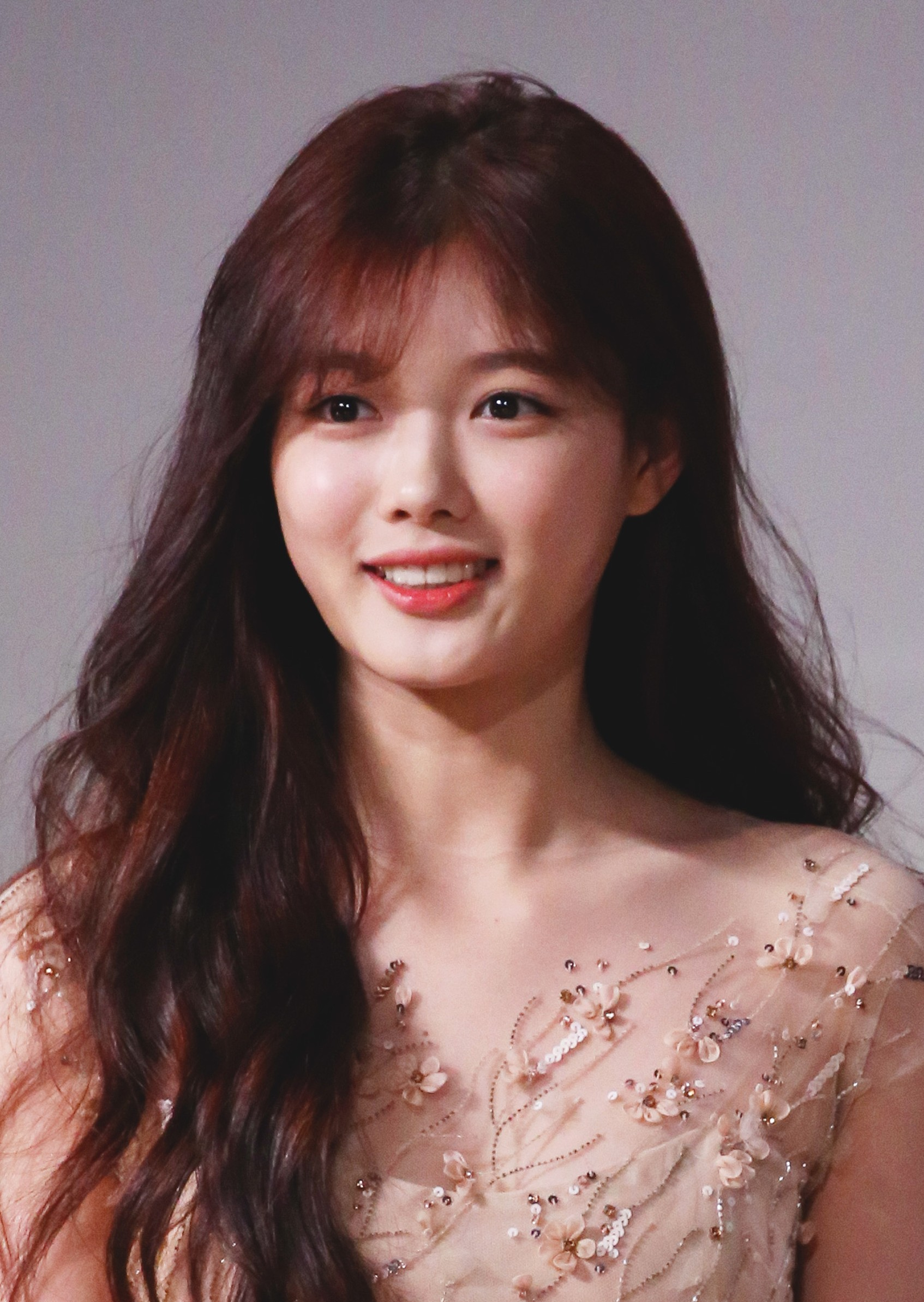 Kim Yoo-jung Hong Kong MAMA red carpet, 2 December 2016